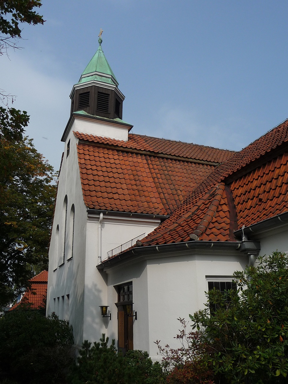 evang-ref.-church in Bremen-Roennebeck